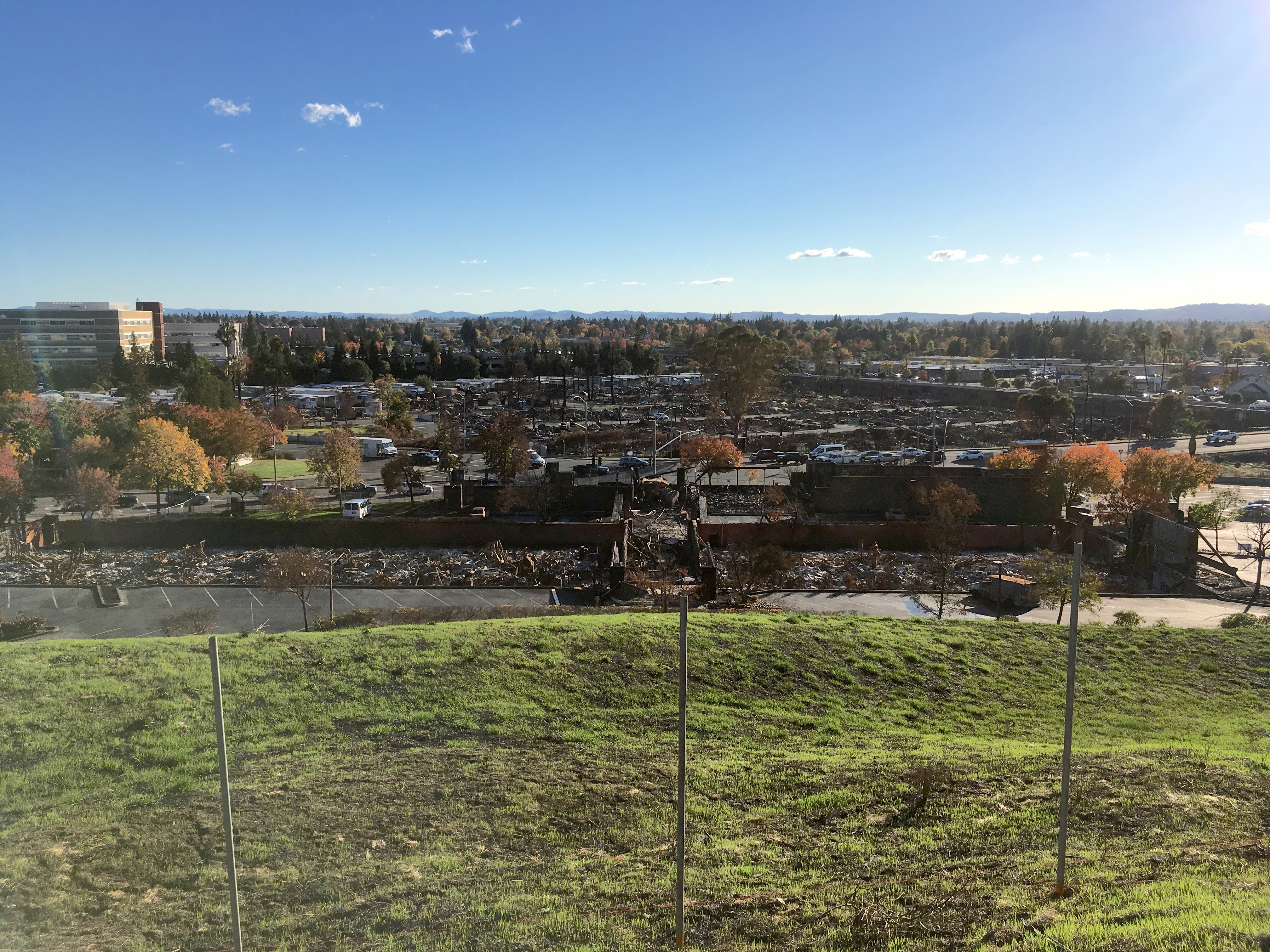 Overlook of the damage done by the Tubbs Fire to the Fountaingrove Inn and, behind it, the Journey's End Mobile Home Park (Santa Rosa, California)